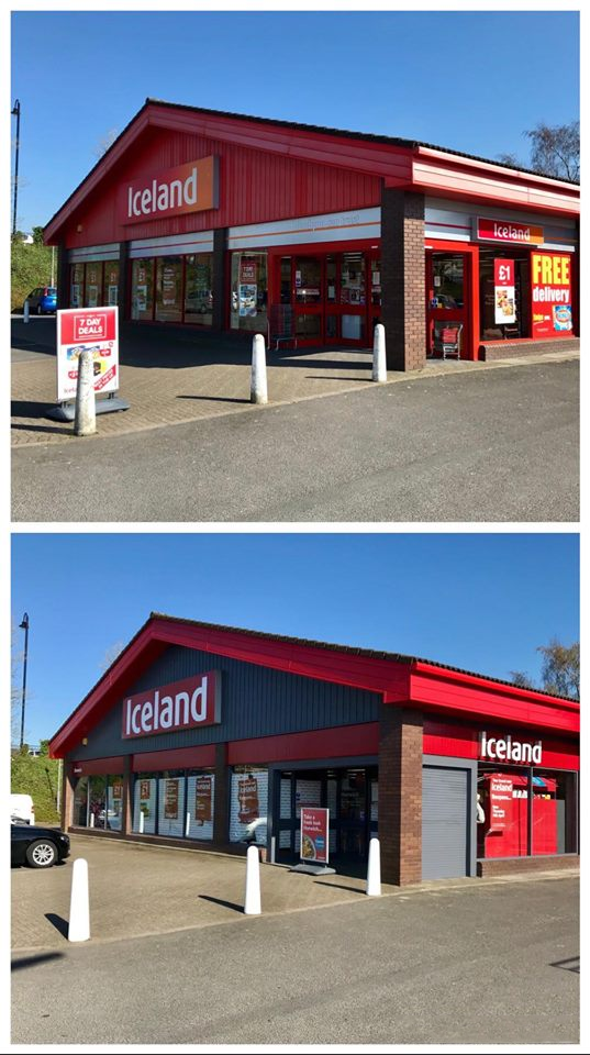 This is a photo of the exterior an Iceland supermarket in Horwich, England, before and after its refurbishment in 2019.